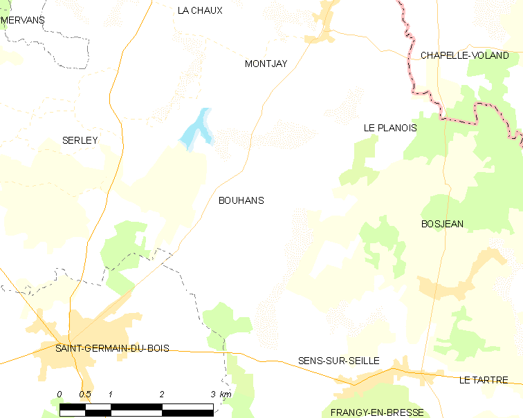 Map of French municipality